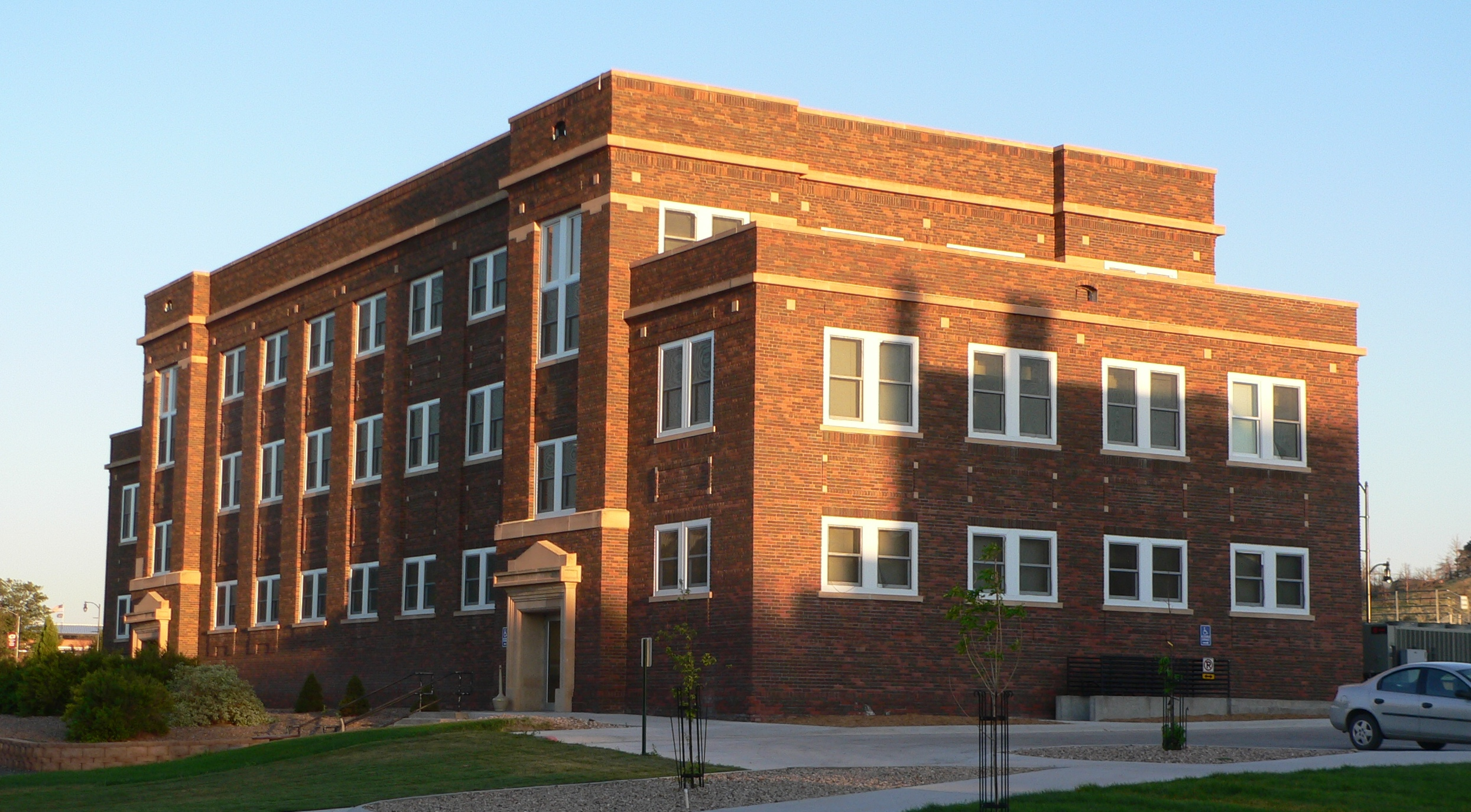 Adelaide Miller Hall, on the campus of Chadron State College in Chadron, Nebraska; seen from the northwest. The building was constructed in 1920. It is listed in the National Register of Historic Places.